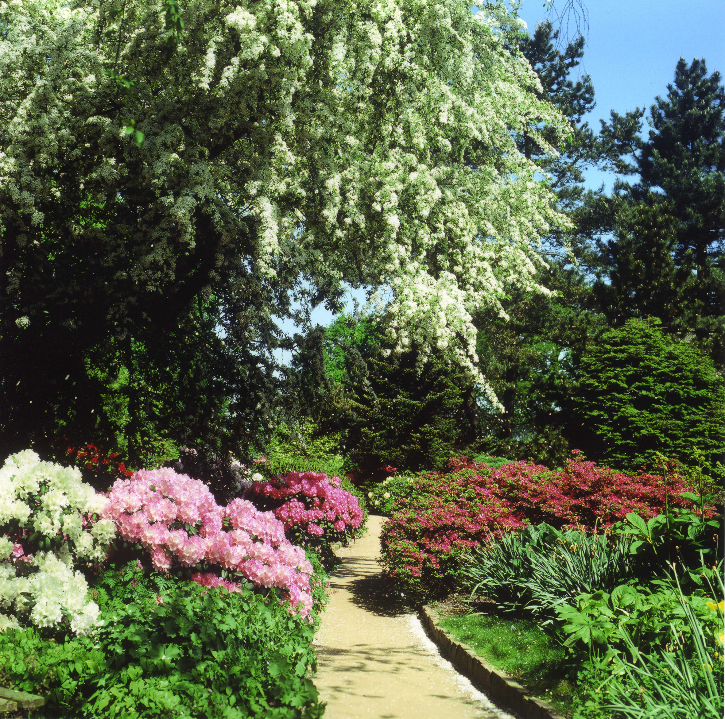 Rhododendron and ornamental apple in the Arboretum Ellerhoop, Schleswig Holstein, Germany